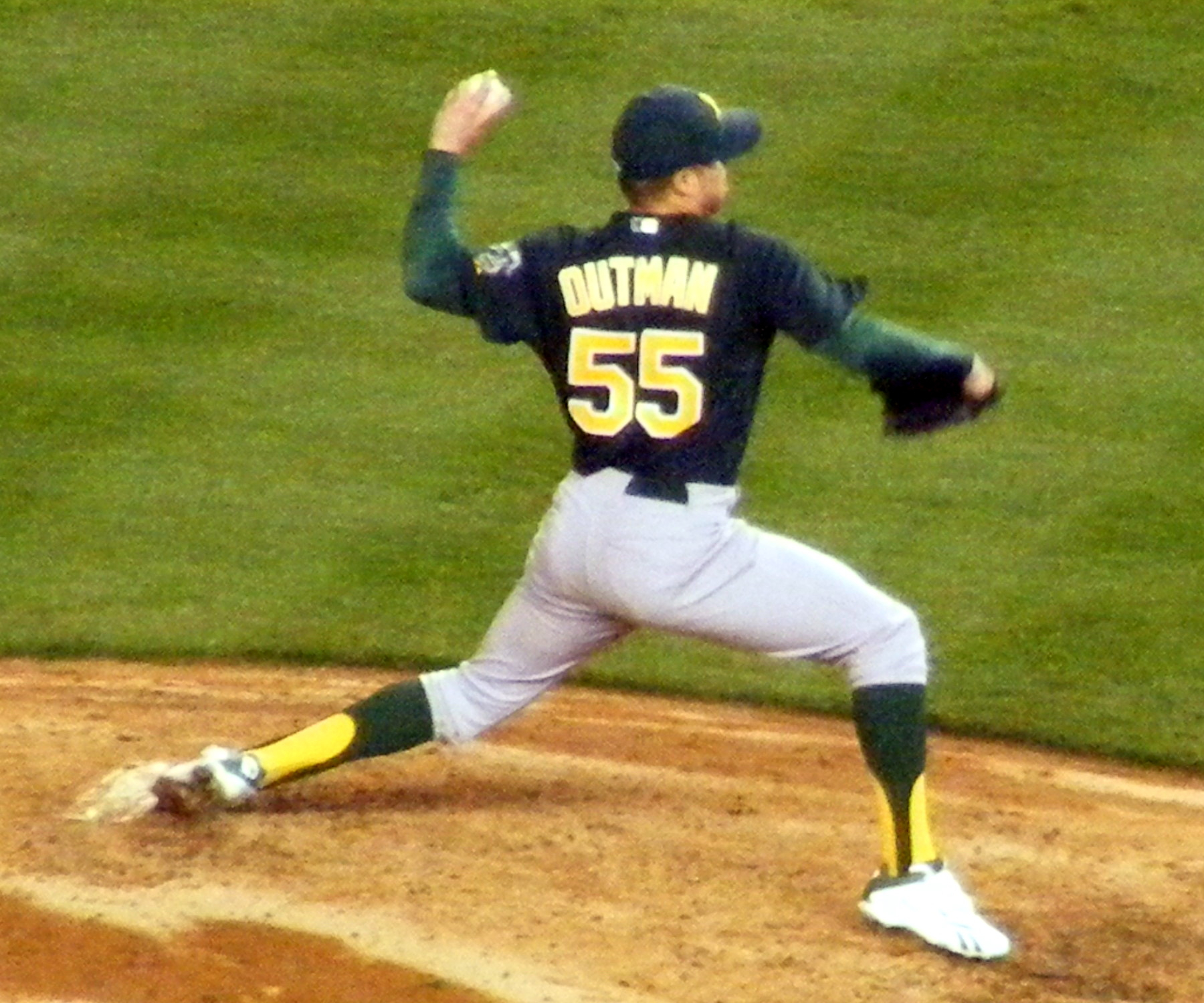 Josh Outman